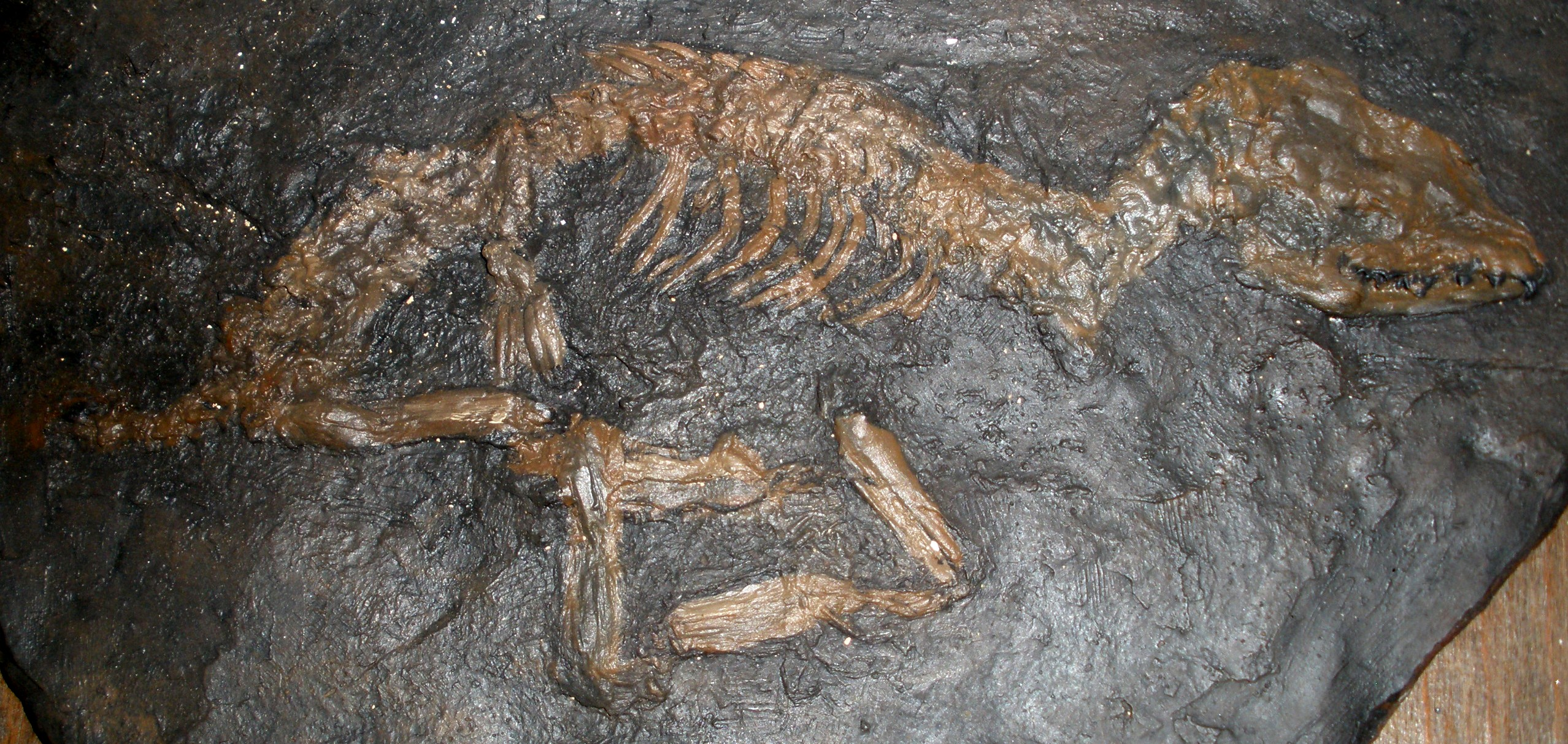 Fossil of Proviverra edingeri, an extinct mammal Took the photo at Museo di Storia Naturale, Milano